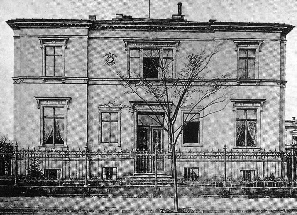 Dresden Haus Parkstraße 3 um 1875 (zerstört)